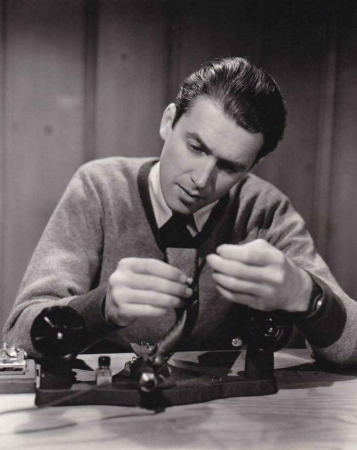 James Stewart. M-G-M photo by Eric Carpenter, 1940